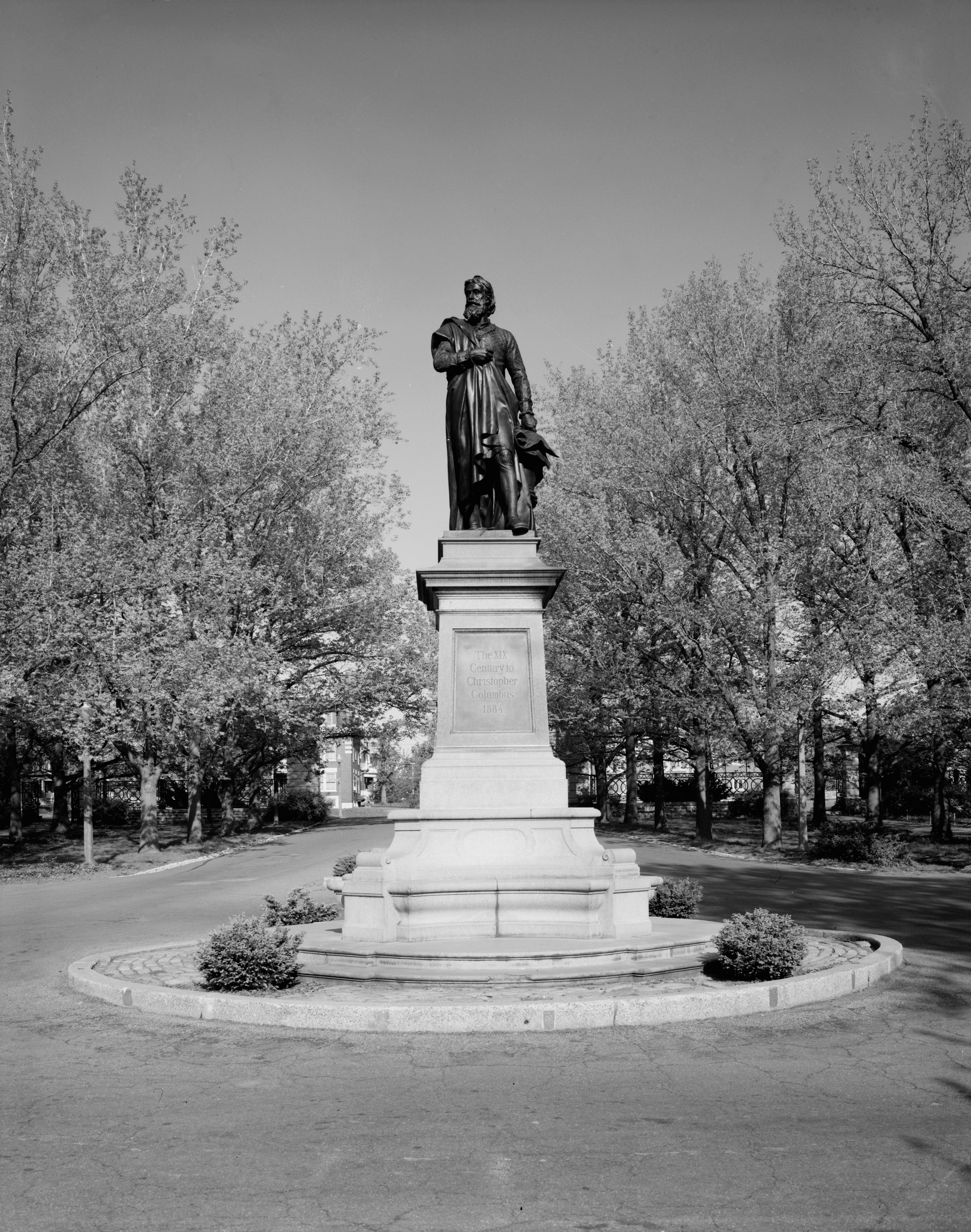 Statue of Christopher Columbus in Tower Grove Park, St. Louis Missouri by HABS/HAER. Original link